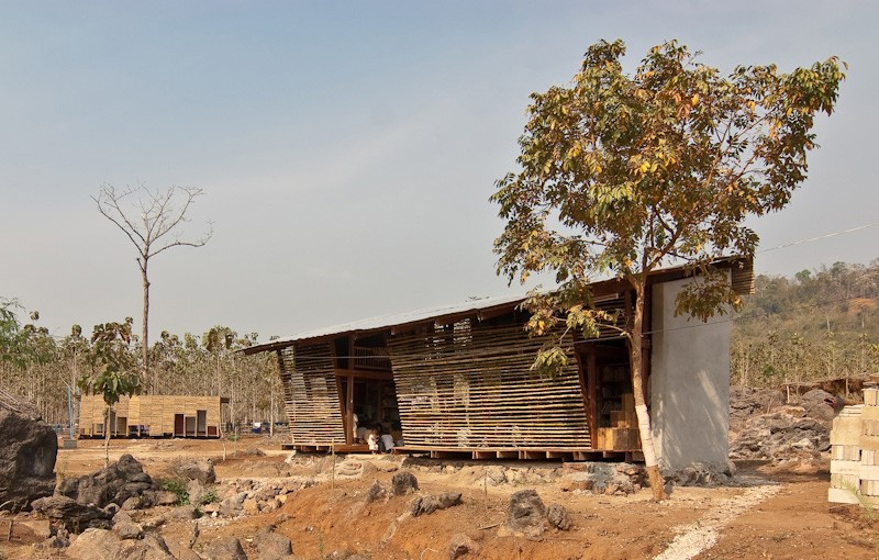 Library at the Safe Haven Orphanage in Thailand. Architects: TYIN tegnestue Architects with collaborators Rintala Eggertsson Architects. This building was built mainly by architecture students of The Norwegian University of Science and Technology (NTNU), as a result of a workshop. Tutors at the workshop, architects Sami Rintala and Hans Skotte (both NTNU)